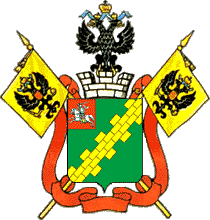 The project of the coat of arms of Daugavpils (Dinaburg) by Bernhard Karl von Koehne in 1857